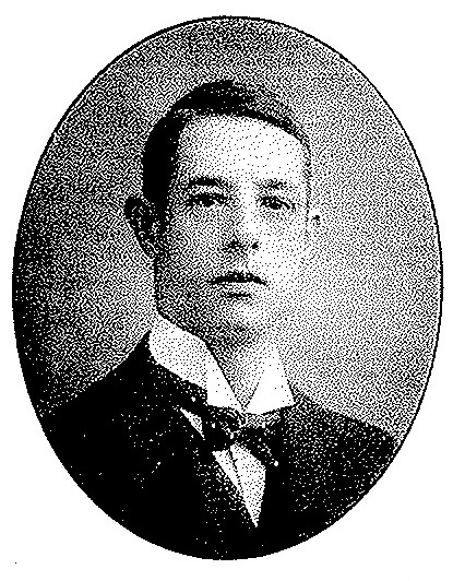 Portrait of John Lloyd Morgan, a Welsh Liberal MP in 1906.